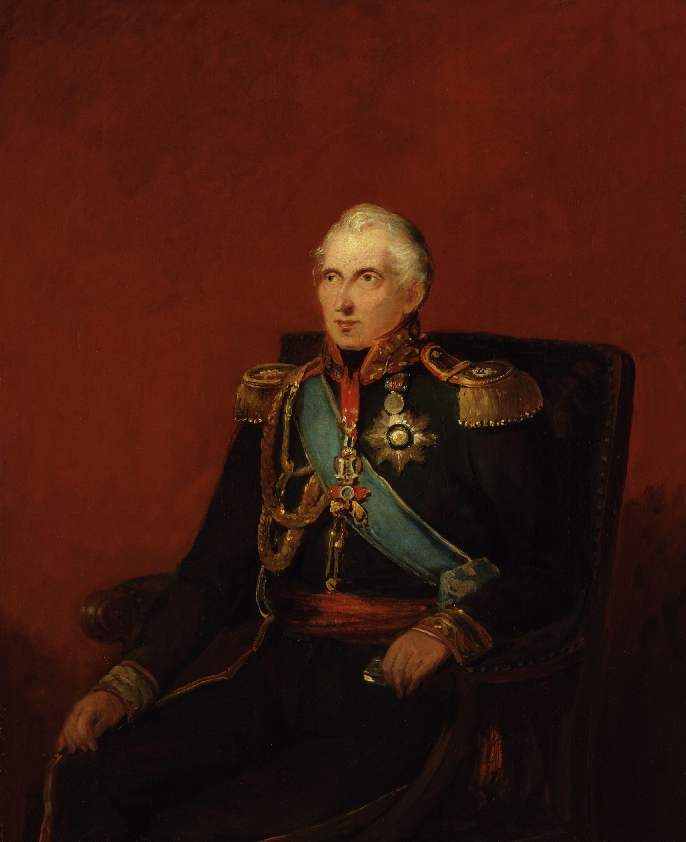 Count Carlo Andrea Pozzo di Borgo, by William Salter (died 1875). All images in this batch have been confirmed as author died before 1939 according to the official death date listed by the NPG.